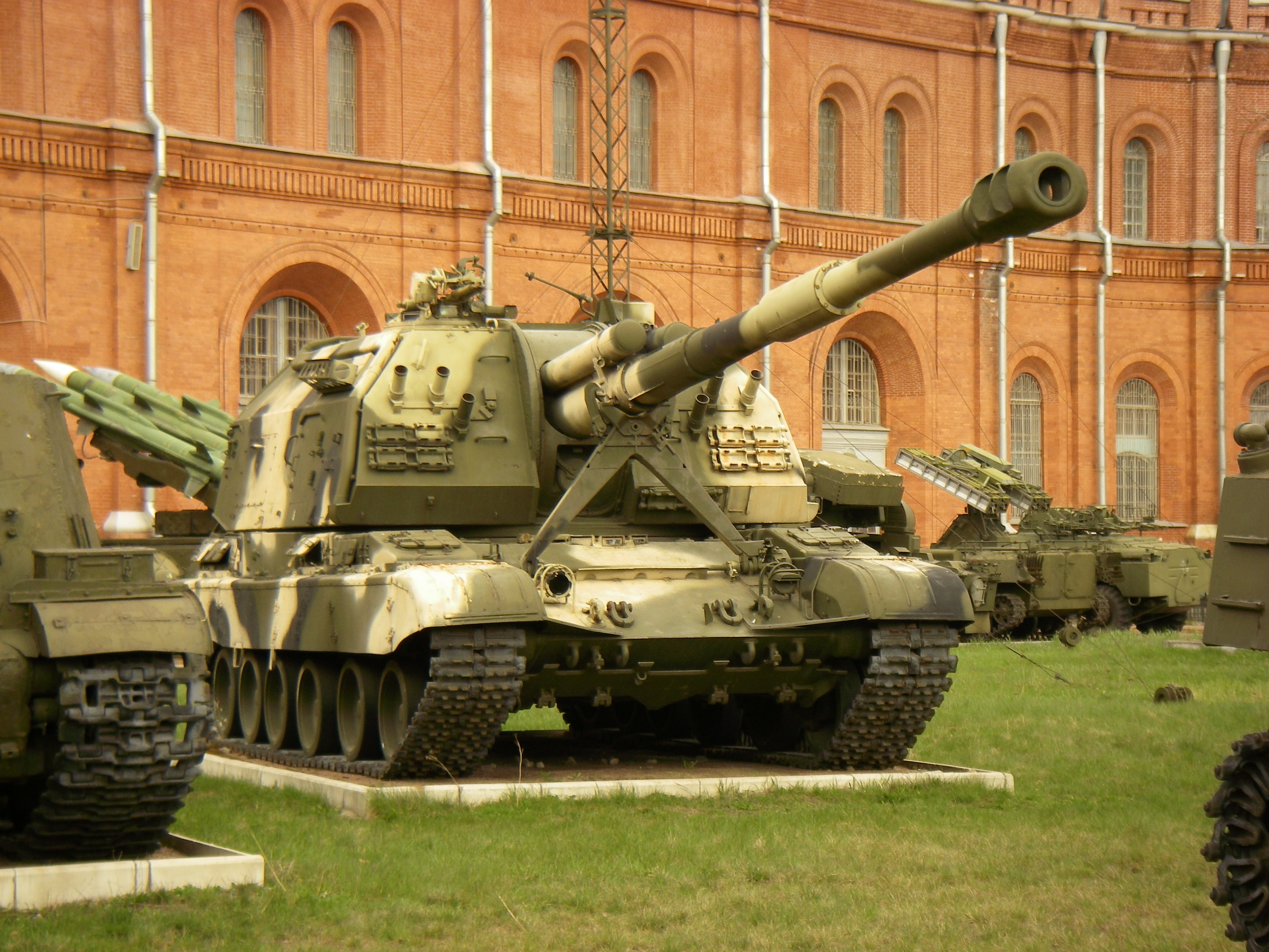 152-mm self-propelled howitzer 2S19 «Msta-S» in Saint-Petersburg Artillery museum